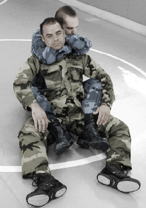 Rear Naked Choke as demonstrated by two soldiers.